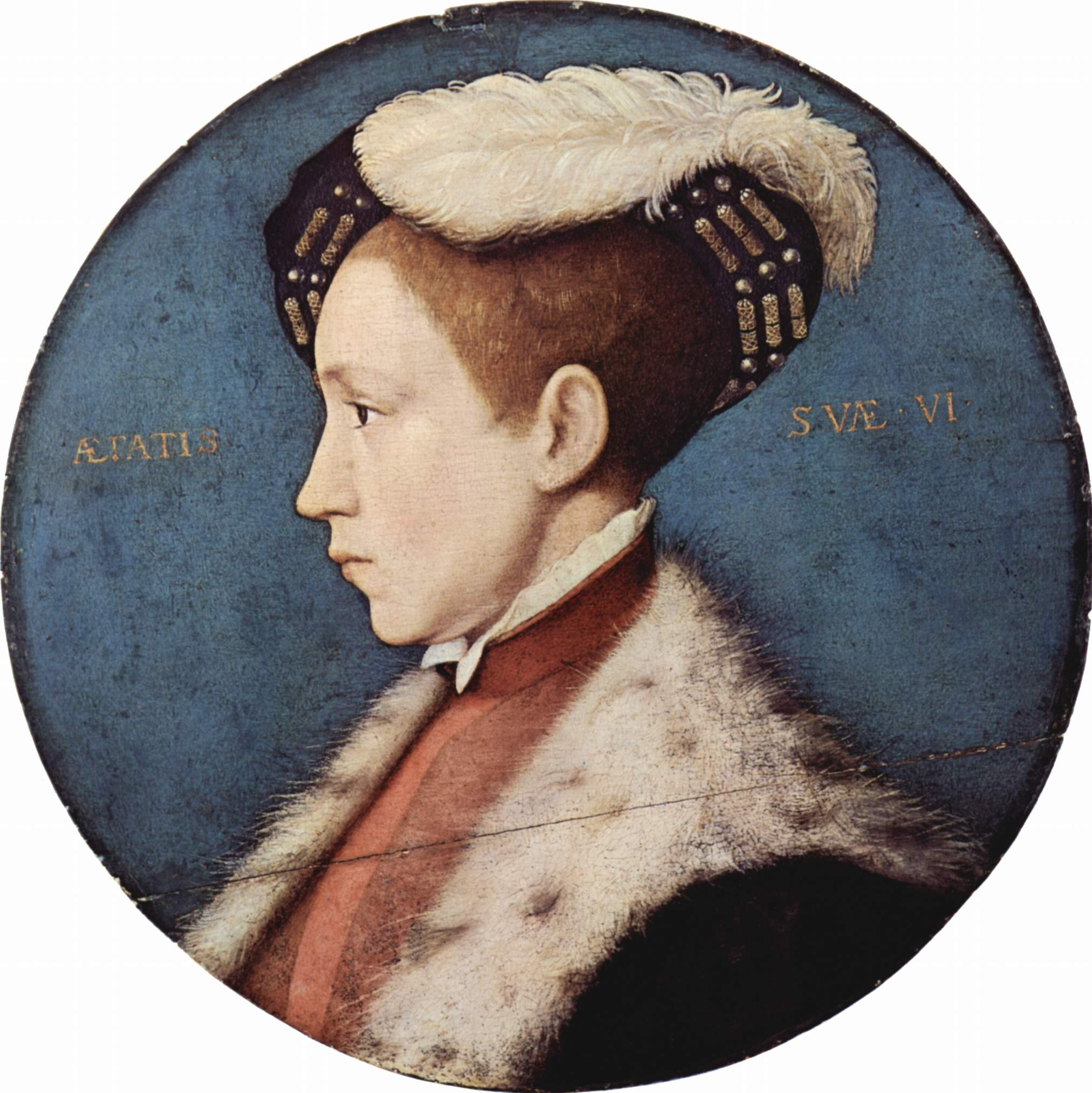 Paul Ganz, among other scholars, attributed this miniature to Holbein, but that was later discounted by Roy Strong and John Rowlands, and the work has not been accepted in recent scholarly studies as by Holbein or included in recent exhibitions of Holbein's work such as Holbein in England, Tate Britain, 2006. In 1969, Strong wrote: "This is no longer acceptable as Holbein's work and in x-ray the costume beneath seems slightly later in date [than the inscription which gives Edward's age as six, as he was in 1543] approximating to the dress in the rest of the versions which is circa 1546". Instead the portrait is thought possibly to derive from a pattern of William Scrots, who produced an anomorphic version of it (Image:Anamorphic portrait of Edward VI by William Scrots.jpg). (References: Roy Strong, Tudor and Jacobean Portraits, London: HMSO, 1969, pp. 92–93; John Rowlands, Hans Holbein: The Paintings of Hans Holbein the Younger, Complete Edition, Boston: David R. Godine, 1985, pp. 235–36; Paul Ganz, The Paintings of Hans Holbein: First Complete Edition, London: Phaidon, 1956, pp. 256–57; Susan Foister, Holbein in England, London: Tate Publishing, 2006.)